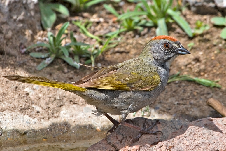 Green-tailed Towhee, Pipilo chlorurus, Cabin Lake Viewing Blinds, Deschutes National Forest, Near Fort Rock, Oregon